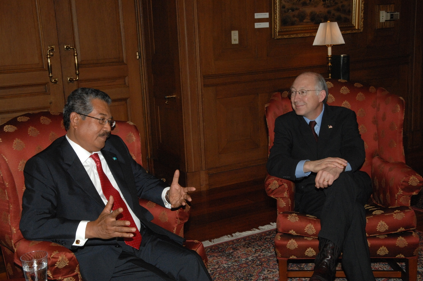 Palau President Johnson Toribiong discusses the Compact of Free Association with Secretary of the Interior Ken Salazar at March 12, 2009 meeting at Interior Headquarters